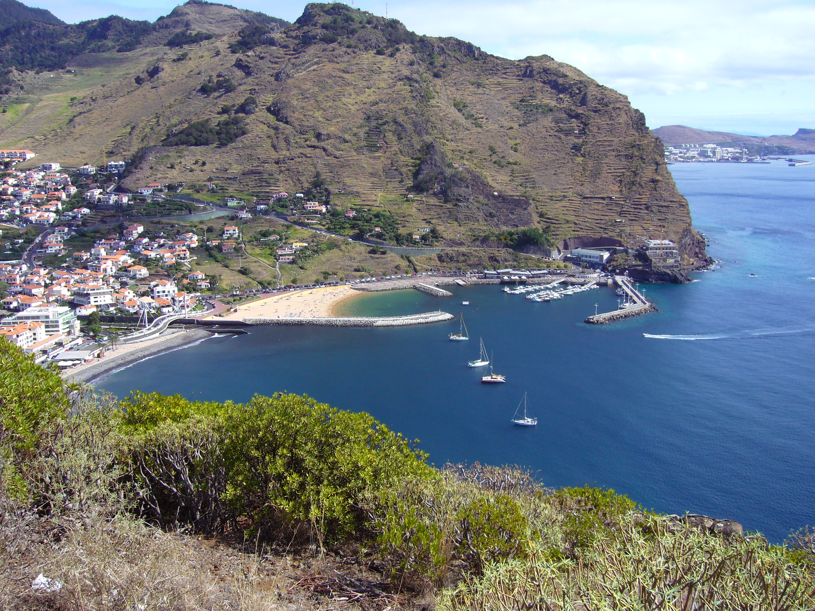 Machico bay in 2009